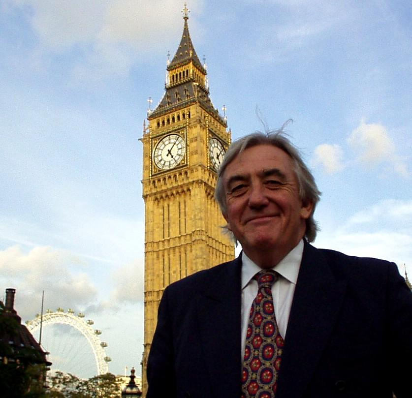 Bob Marshall-Andrews, MP for Medway standing in front of the St Stephen's Tower (containing the clock and Big Ben) at the Palace of Westminster, London. Uploaded by User:ClemRutter with express permission of Jill Fennell, the photographer. - Google Maps - Google Earth